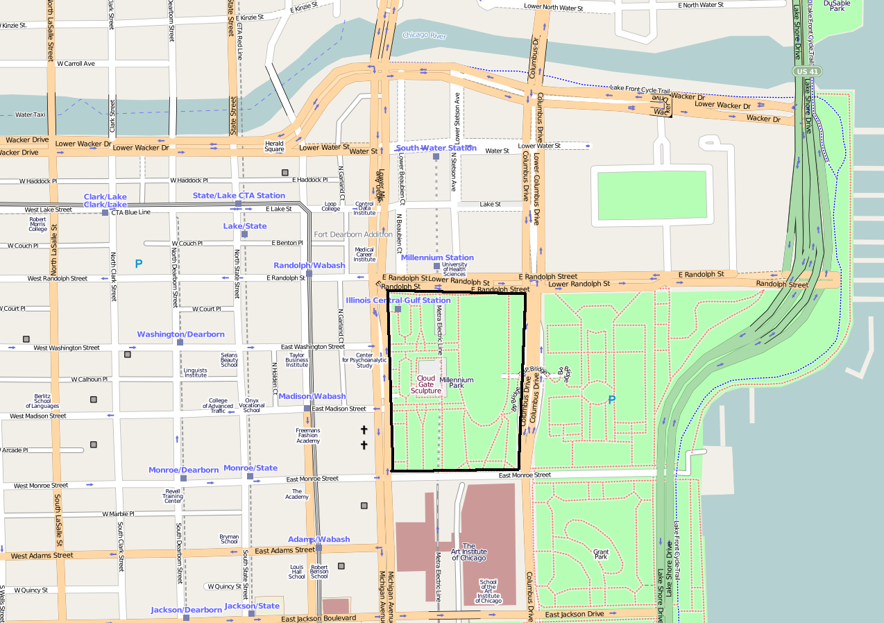 Millennium Park location in Chicago Loop This map may be incomplete, and may contain errors. Don't rely solely on it for navigation.